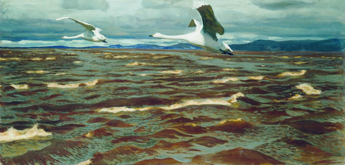 Swans over Kama (painting by Arkady Rylov, 1920, replica of his 1912 painting)